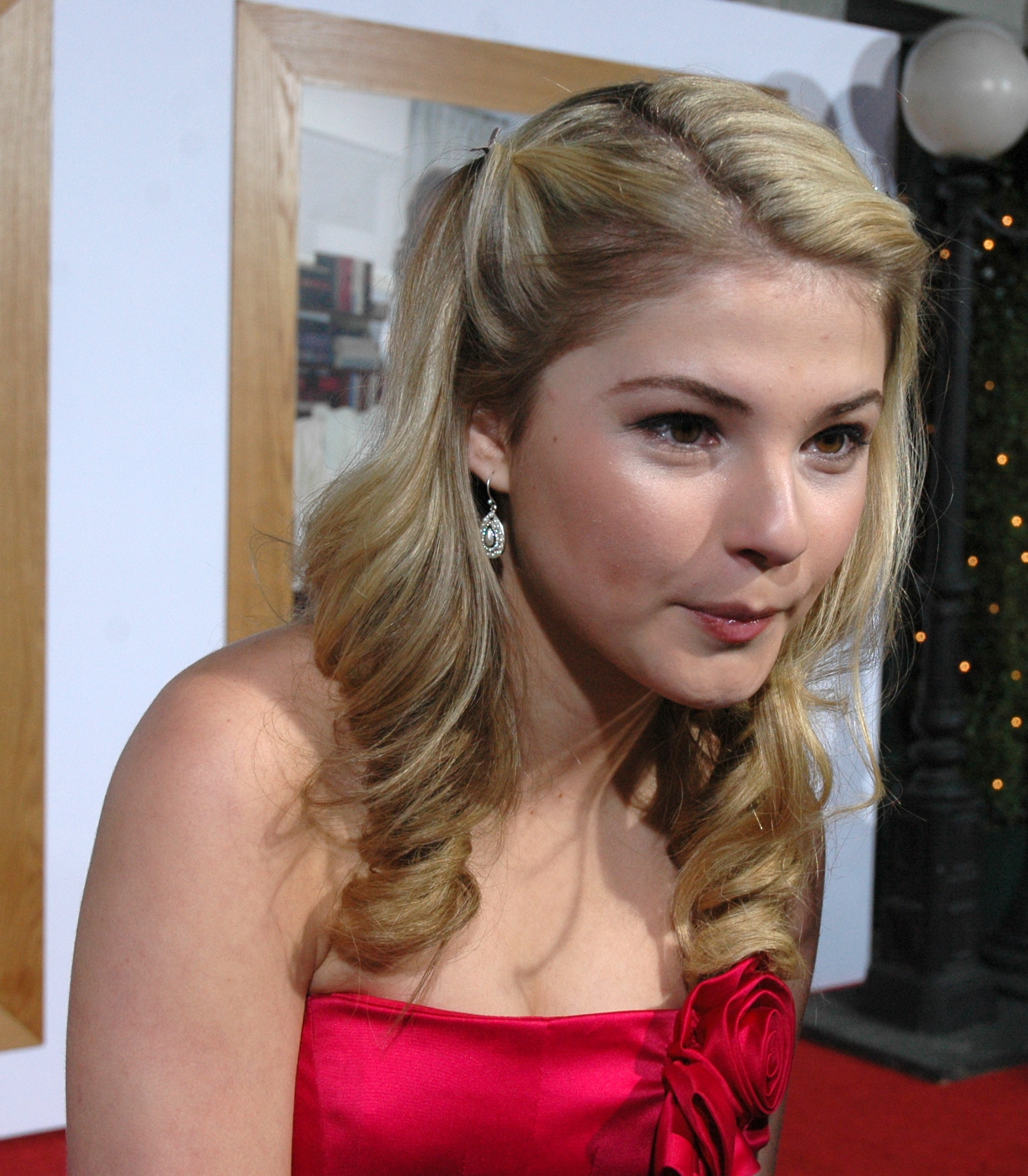 STEFANIE SCOTT, LA Premiere of "NO STRINGS ATTACHED", Regency Village Theatre, Westwood, 1-11-11.Cast members and filmmakers attending include: Ivan Reitman (Director), Natalie Portman (Emma), Ashton Kutcher (Adam), Kevin Kline (Alvin), Lake Bell (Lucy), Greta Gerwig (Patrice), Chris "Ludacris" Bridges (Wallace), Jake Johnson (Eli), Ben Lawson (Sam), Adhir Kalyan (Kevin), Brian Dierker (Bones), Stephanie Scott (Young Emma), Elizabeth Meriwether (Writer), Tom Pollock (Executive Producer) Joe Medjuck (Producer), Jeff Clifford (Producer), Roger Birnbaum (Executive Producer), Gary Barber (Executive Producer), Jonathan Glickman (Executive Producer)